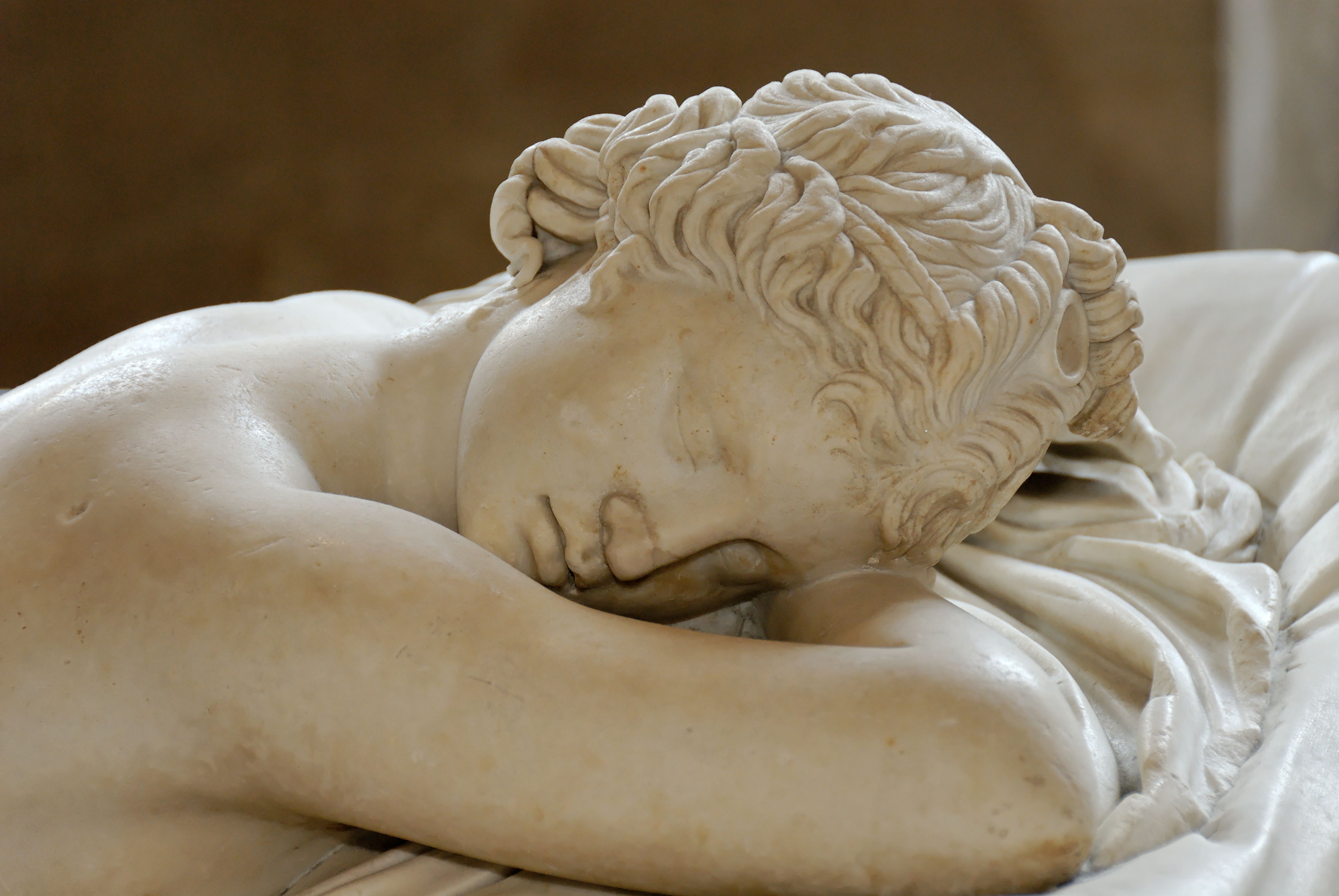 Sleeping Hermaphroditus. Hermaphroditus: Greek marble, Roman copy of the 2nd century CE after a Hellenistic original of the 2nd century BC, restored in 1619 by David Larique; mattress: Carrara marble, made by Gianlorenzo Bernini in 1619 on Cardinal Borghese's request.